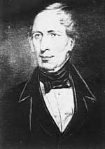 Charles Sturt c. 1849.